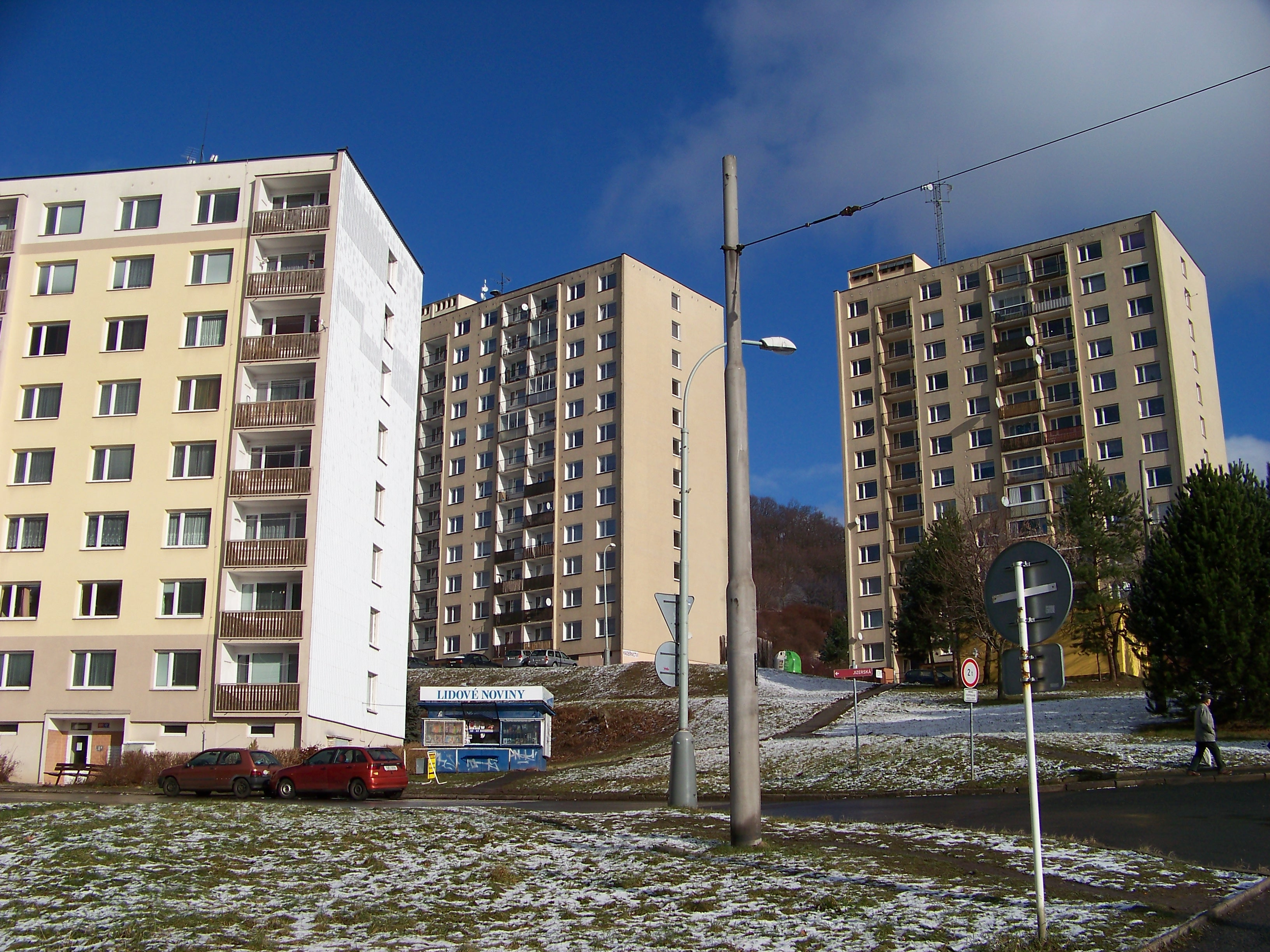 Ústí nad Labem-Severní Terasa, the Czech Republic. Panel houses. - OpenStreetMap(Info)